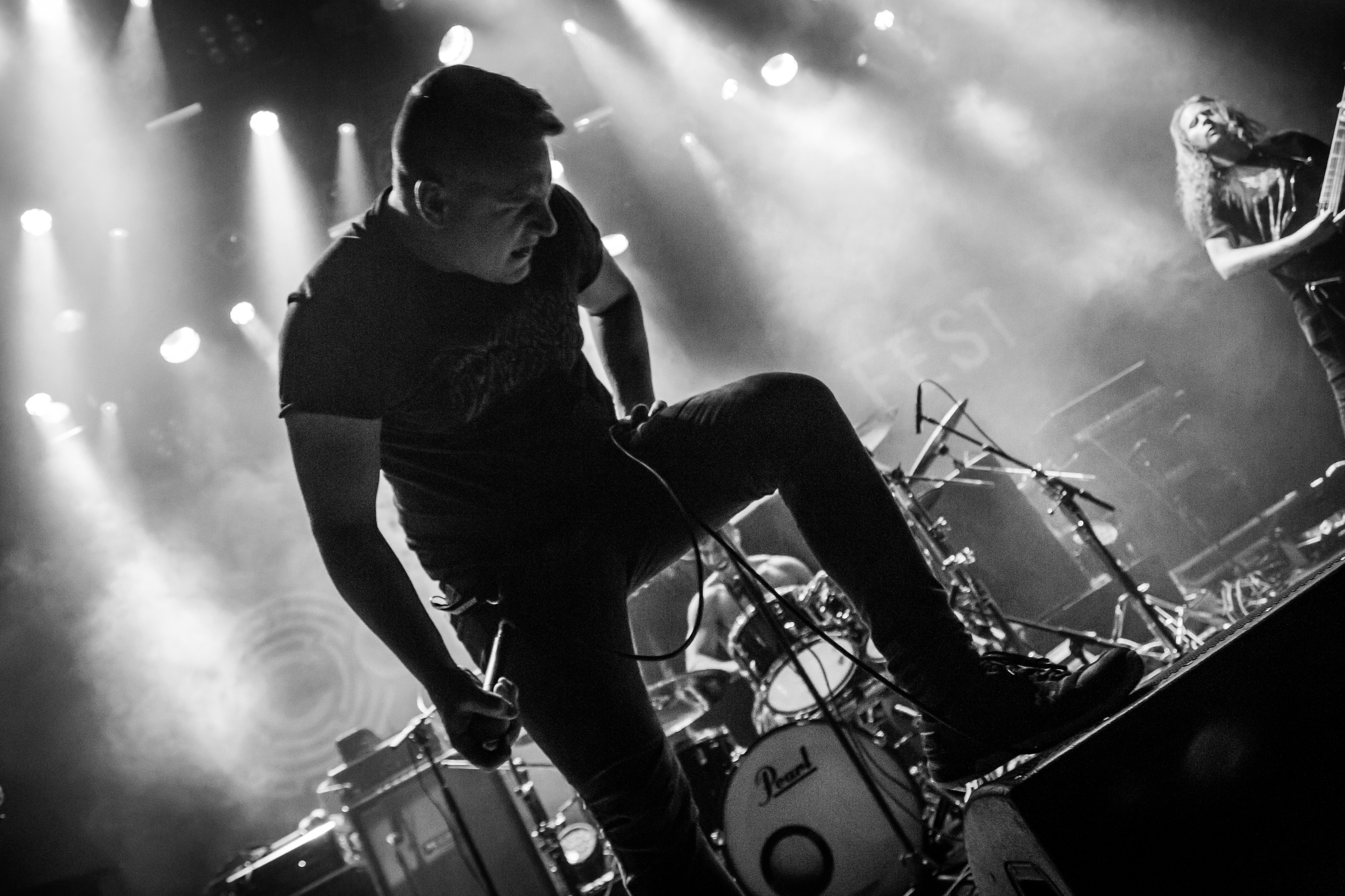 Disentomb perfoming live at Complexity Fest, Patronaat, Haarlem, 2018